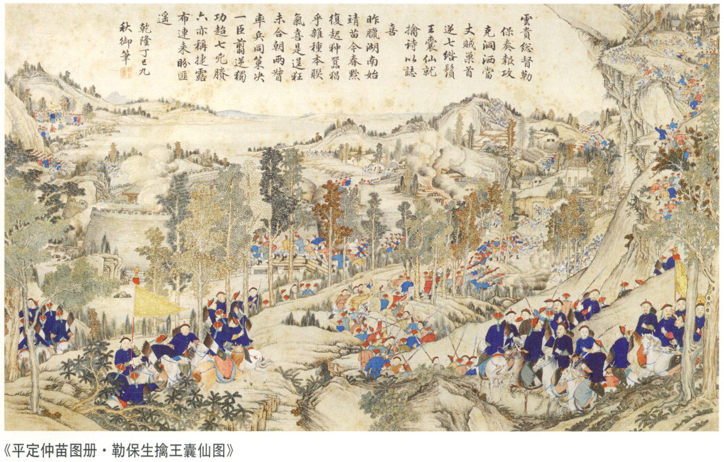 A scene of the Chinese Campaign against the Chong Miao Feldzug (Yunnan) 1795